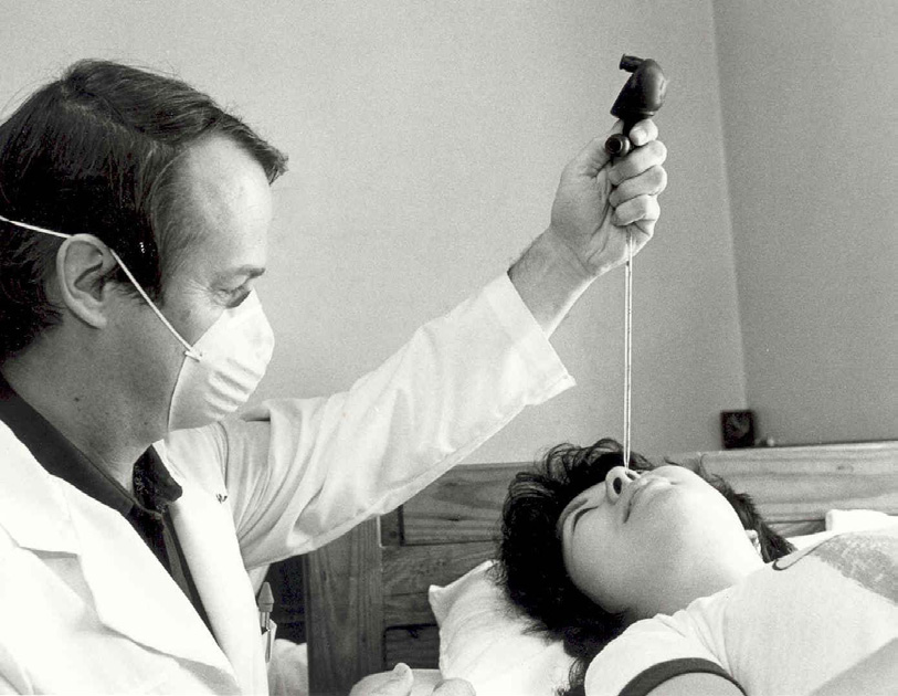 Brian R. Murphy, co-director of the National Institute of Allergy and Infectious Diseases' (USA) Laboratory of Infectious Diseases administers an intranasal influenza vaccine to a volunteer during a clinical trial in 1984.